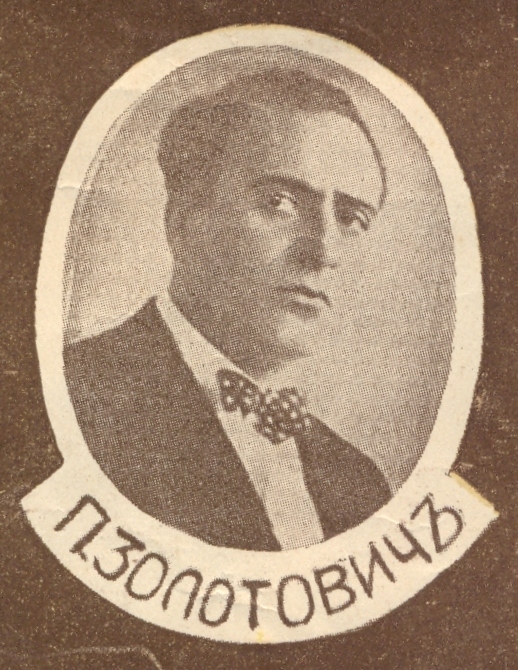 Portrait of the Bulgarian opera vocalist Petar Zolotovich (1893-1977) on a poster "Bulgarian scenic art 1900-1932"